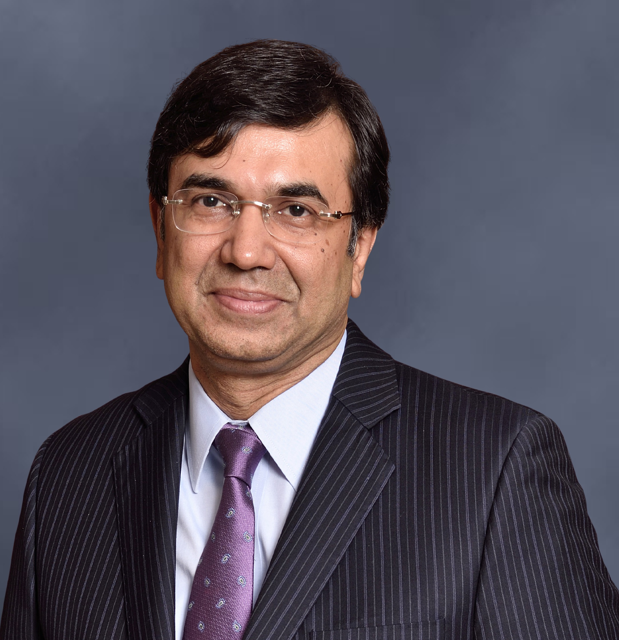 Picture of the sector president